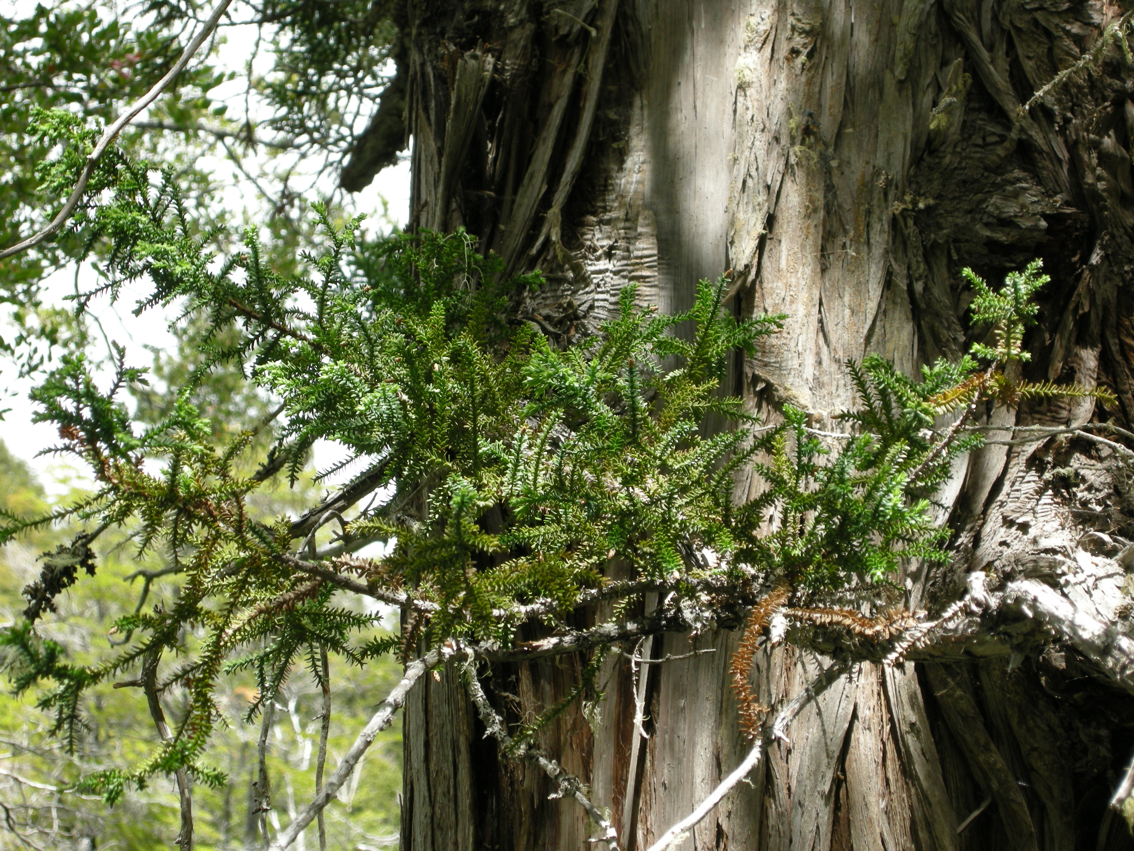 Branch of Fitzroya cupressoides. Picture taken in Los Alerces National Park (Chubut province, Argentina).